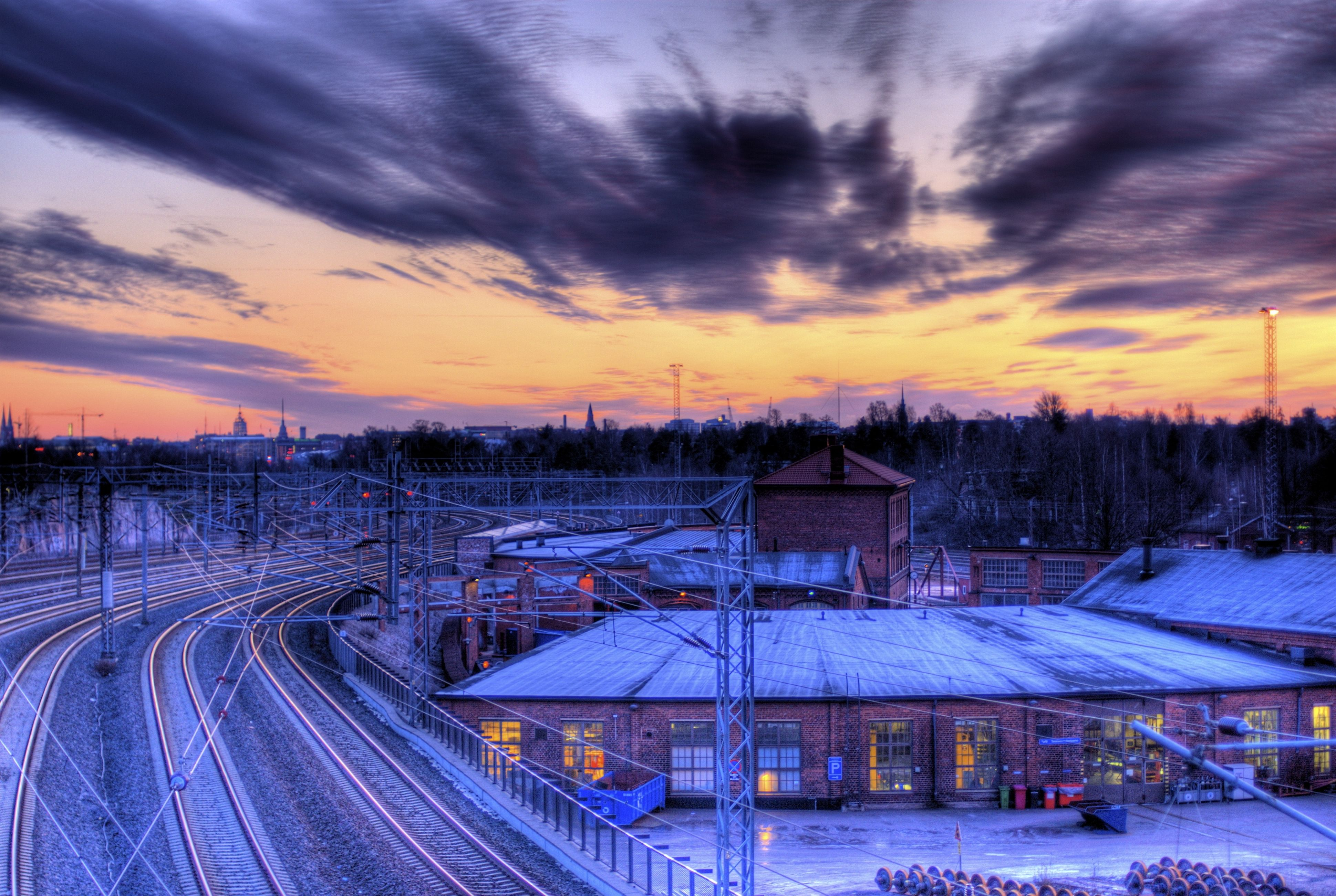 We went on a joyride with Linda and Sampo on the Christmas day. The sun was setting when we passed through the Pasila yards. Helsinki. December 2006.